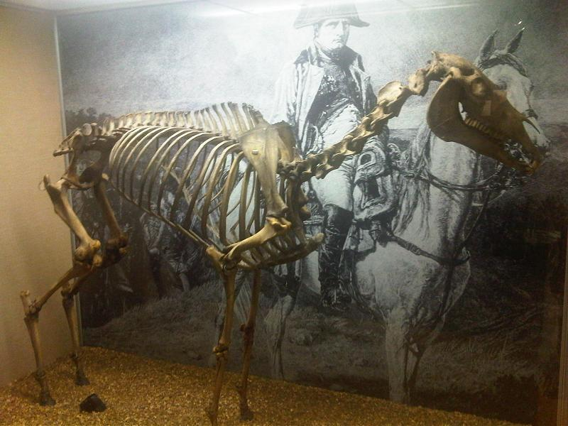 The skeleton of Marengo, Napoleon's favourite horse at the National Army Museum in London, England. Marengo was a grey Arab stallion 14 hands high, obtained by Napoleon after the Battle of Aboukir in 1799. One of at least seven horses acquired by the Emperor during his Egyptian and Syrian campaigns, Marengo was the most celebrated. Named after a French victory over the Austrians in 1800, Marengo was ridden by Napoleon in several later campaigns including Waterloo. Marengo was captured at the end of the Battle of Waterloo and put on public display in London. It was later sold to Lieutenant-General J.J.W.Angerstein, a noted horse breeder, who put it to stud near Newmarket. When Marengo died in 1832, its skeleton was articulated by Surgeon Wilmat of the London Hospital and presented to the Royal United Services Museum. The missing hoowes were made into snuff boxes; the skin, put aside for a taxidermist to stuff, was lost.